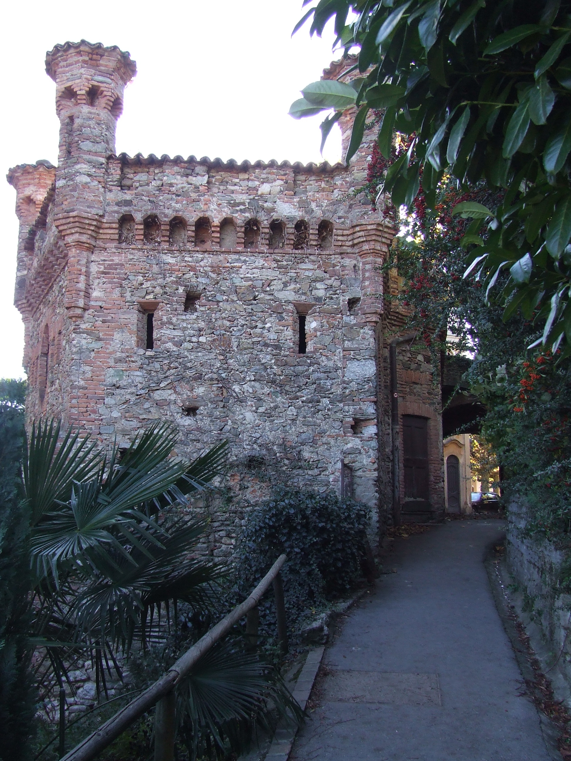 Camuzzi's house.